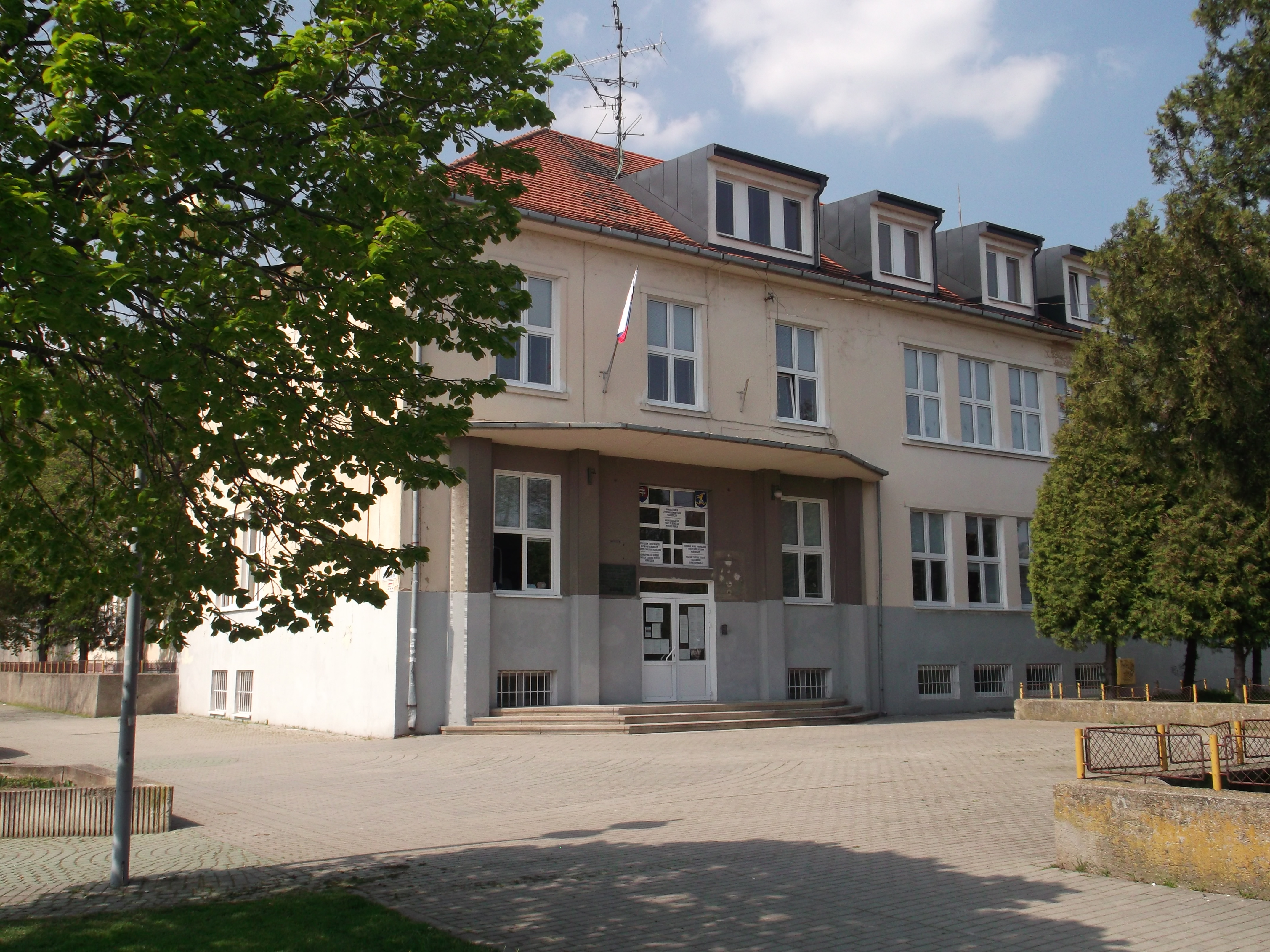 Szenczi Molnár Albert High School, Senec, Slovakia